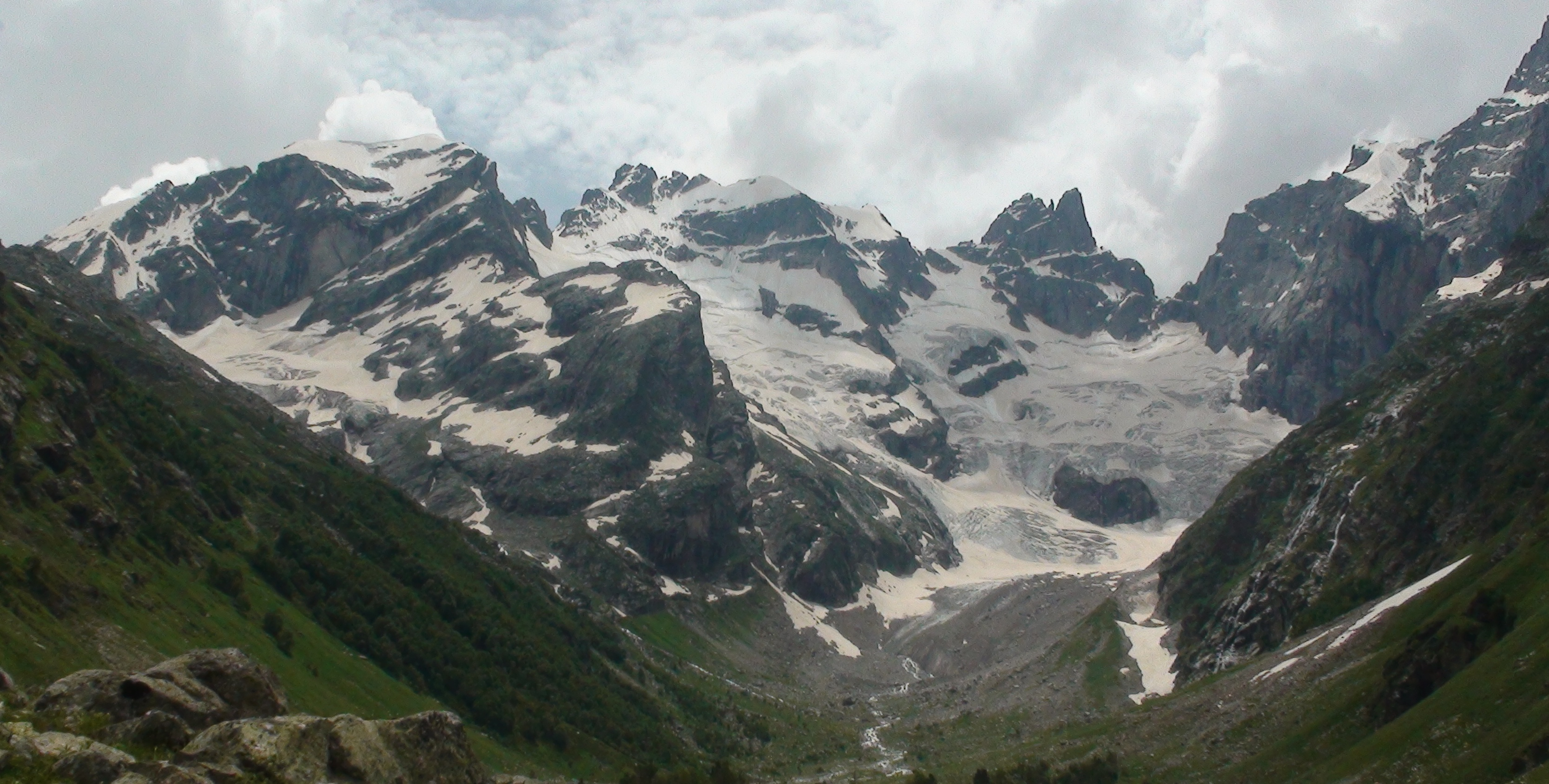 Uzunkol mount